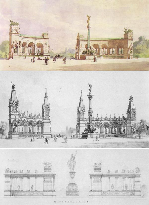 Plan of Millennium Monument in Budapest (1895)